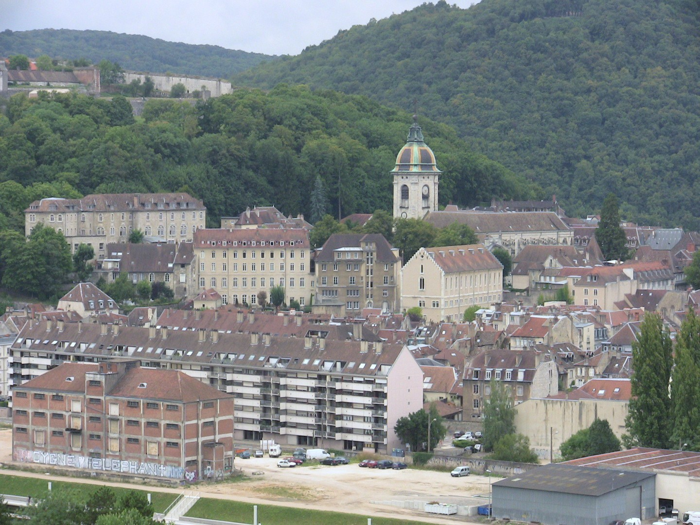 The area of Saint Jean, in Besançon (France)